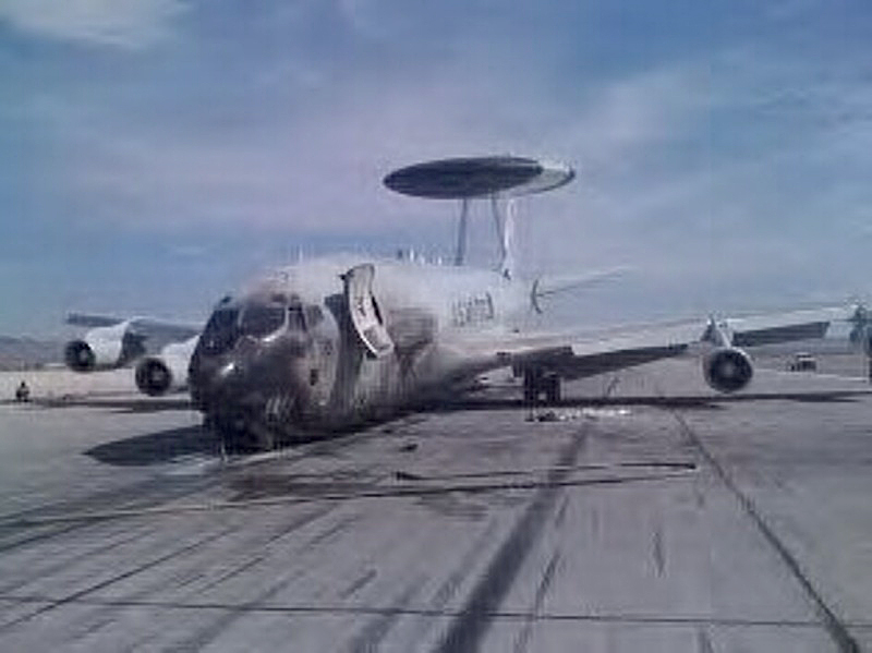 Fire-damaged hull, USAF -E-3B at Nellis AFB, NV